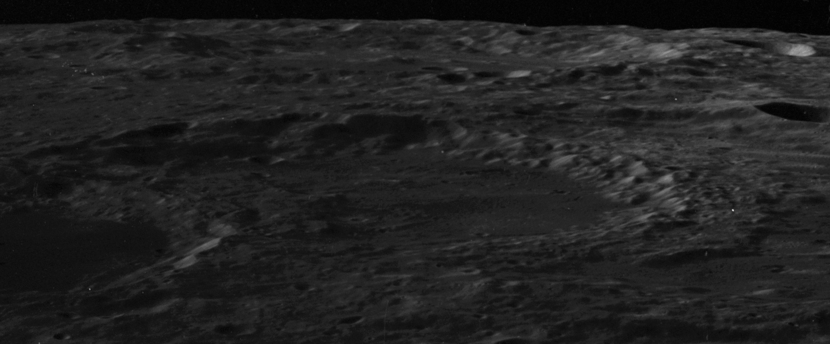 Oblique view of Maxwell, on the far side of the moon, facing northwest. Brightness and contrast greatly enhanced. Vestine is in the central background and Lomonosov is at left.